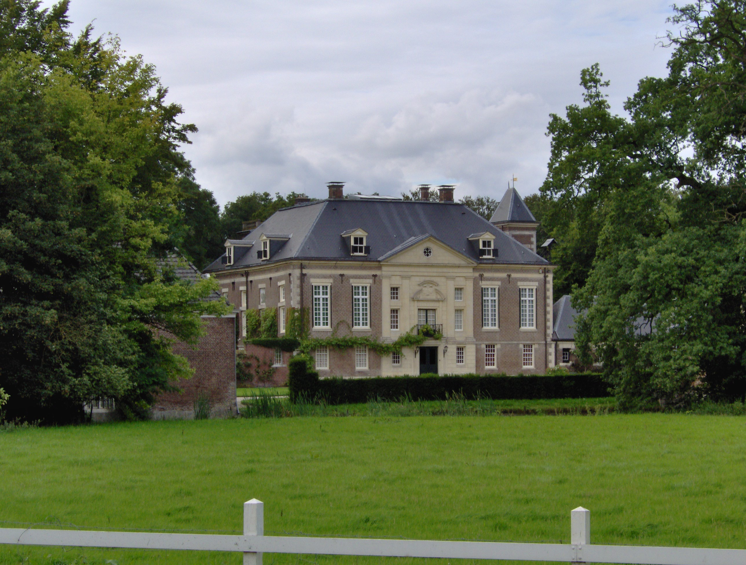 The castle Huis Diepenheim in Diepenheim, a city in the municipality of Hof van Twente, Netherlands